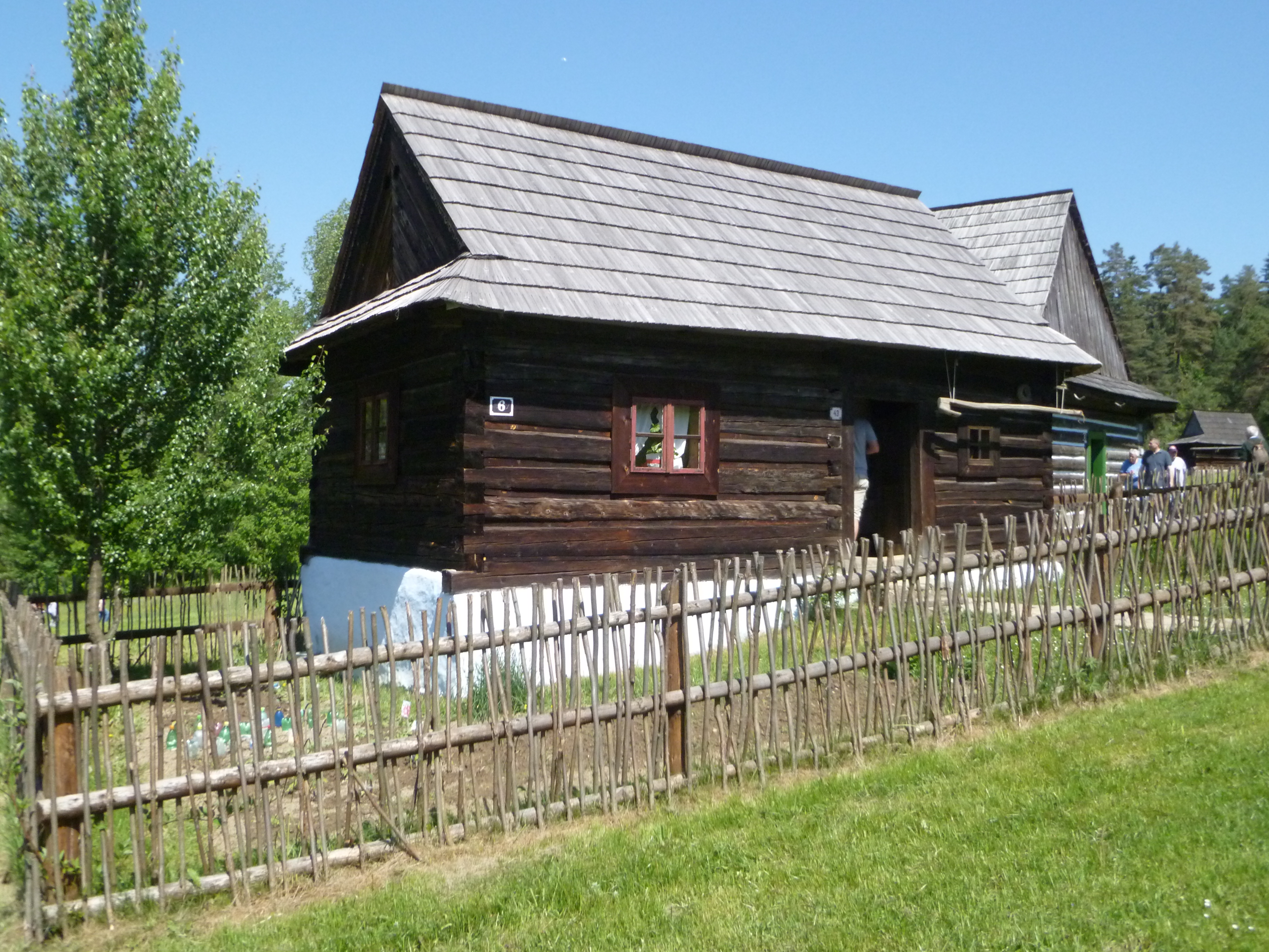 shepherd's house from Litmanova in the open-air museum of Ľubovňa (Slovakia)